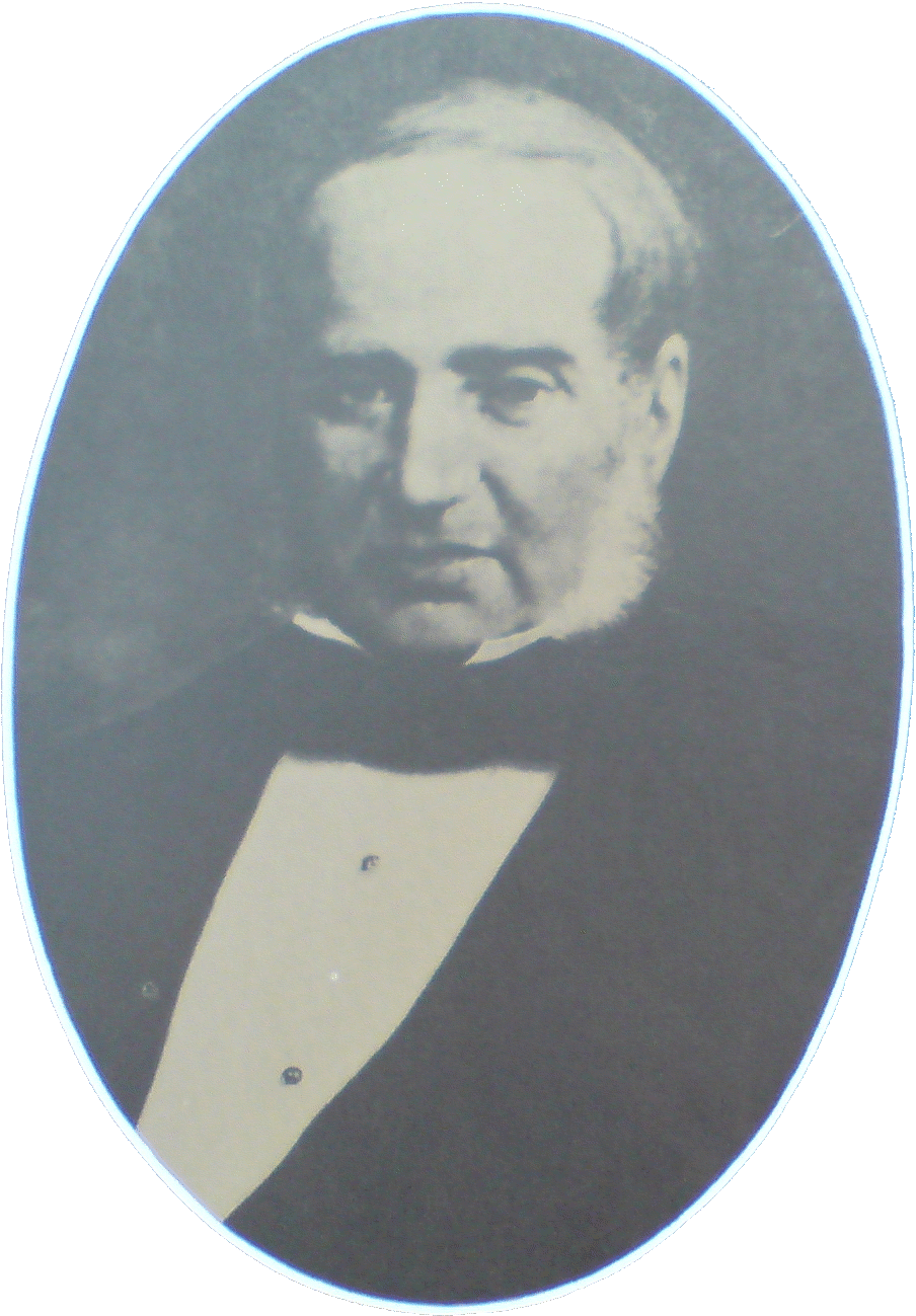 Walter Crafton SmithHrvatski: slika Waltera Craftona Smitha